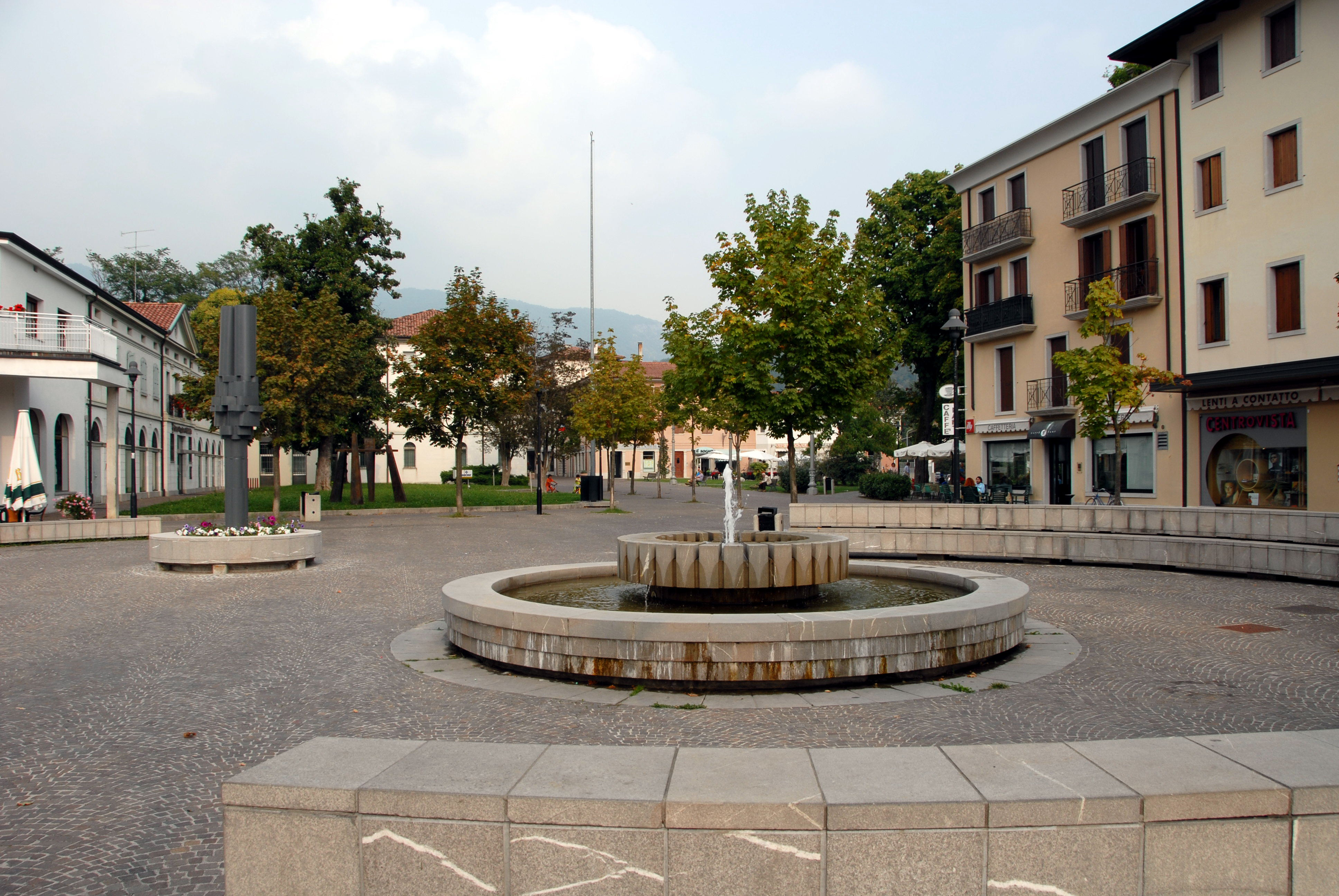 Main square in Tarcento, Province of Udine, Friuli, Italy